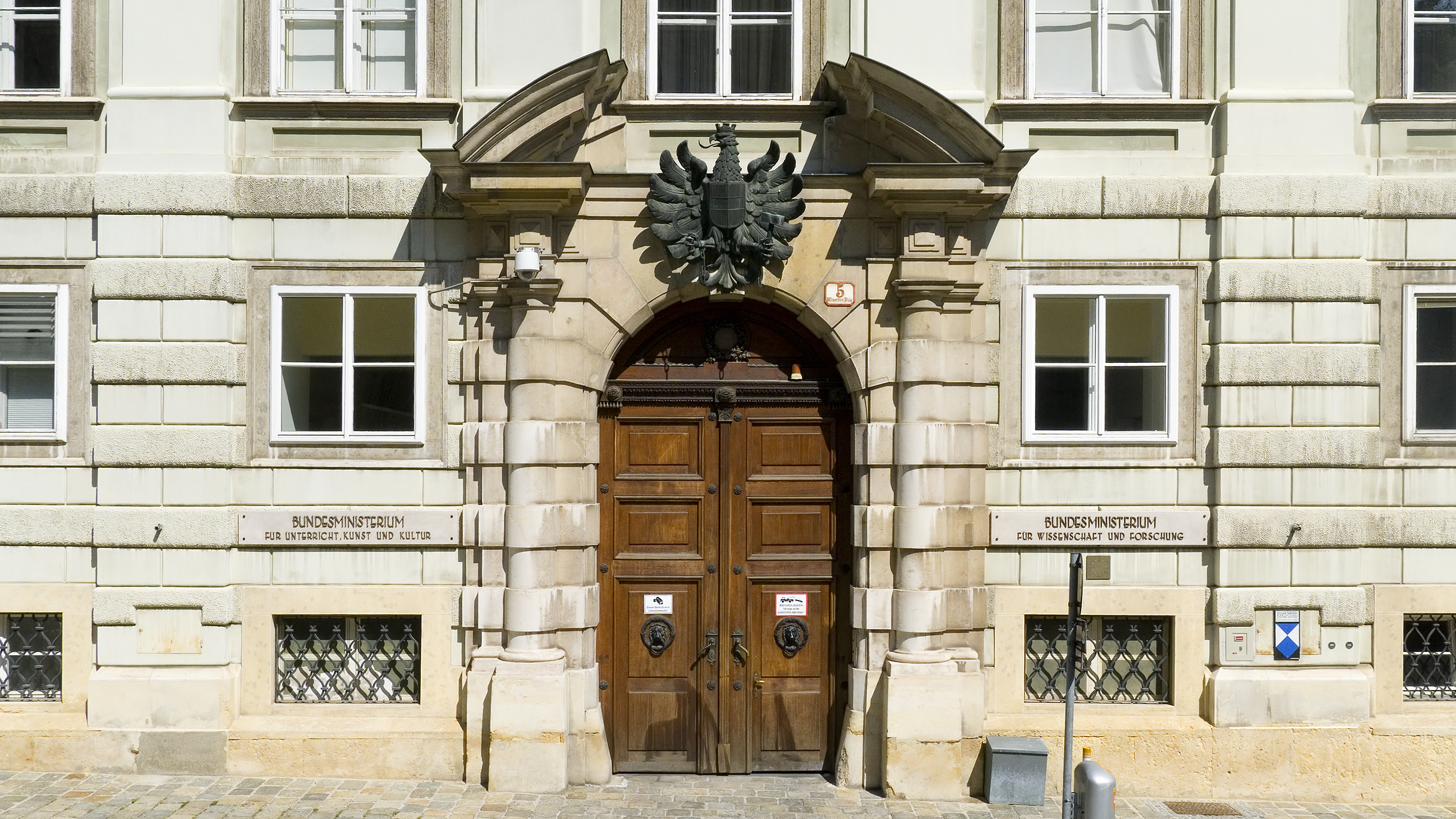 Ministry Bundesministerium für Wissenschaft und Forschung in Vienna 1